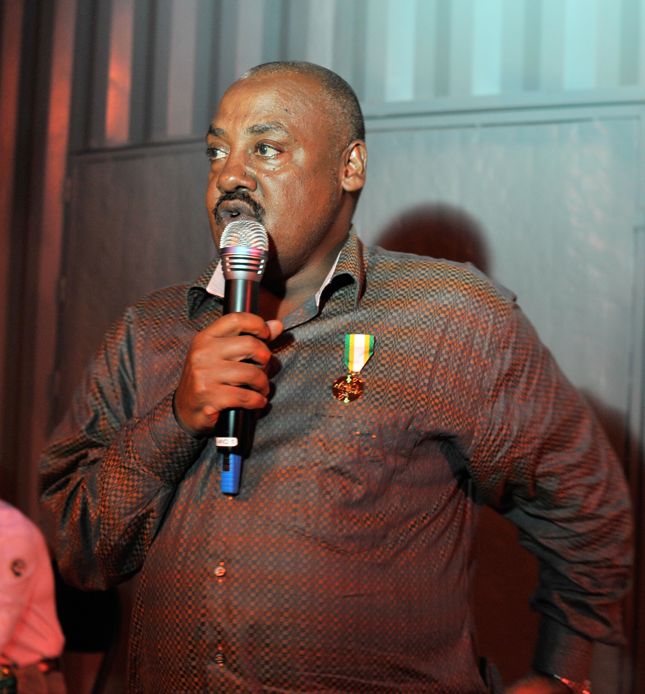 The outgoing commander of the African Union Mission in Somalia (AMISOM) Ugandan contingent, Brig. Gen. Sam Kavuma speaks during a formal farewell ceremony in Mogadishu at the end of his tour of duty in Mogadishu, Somalia, on November 29, 2015.